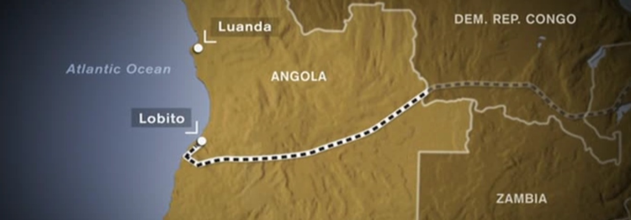 Map of the Benguela Railway Line in Angola